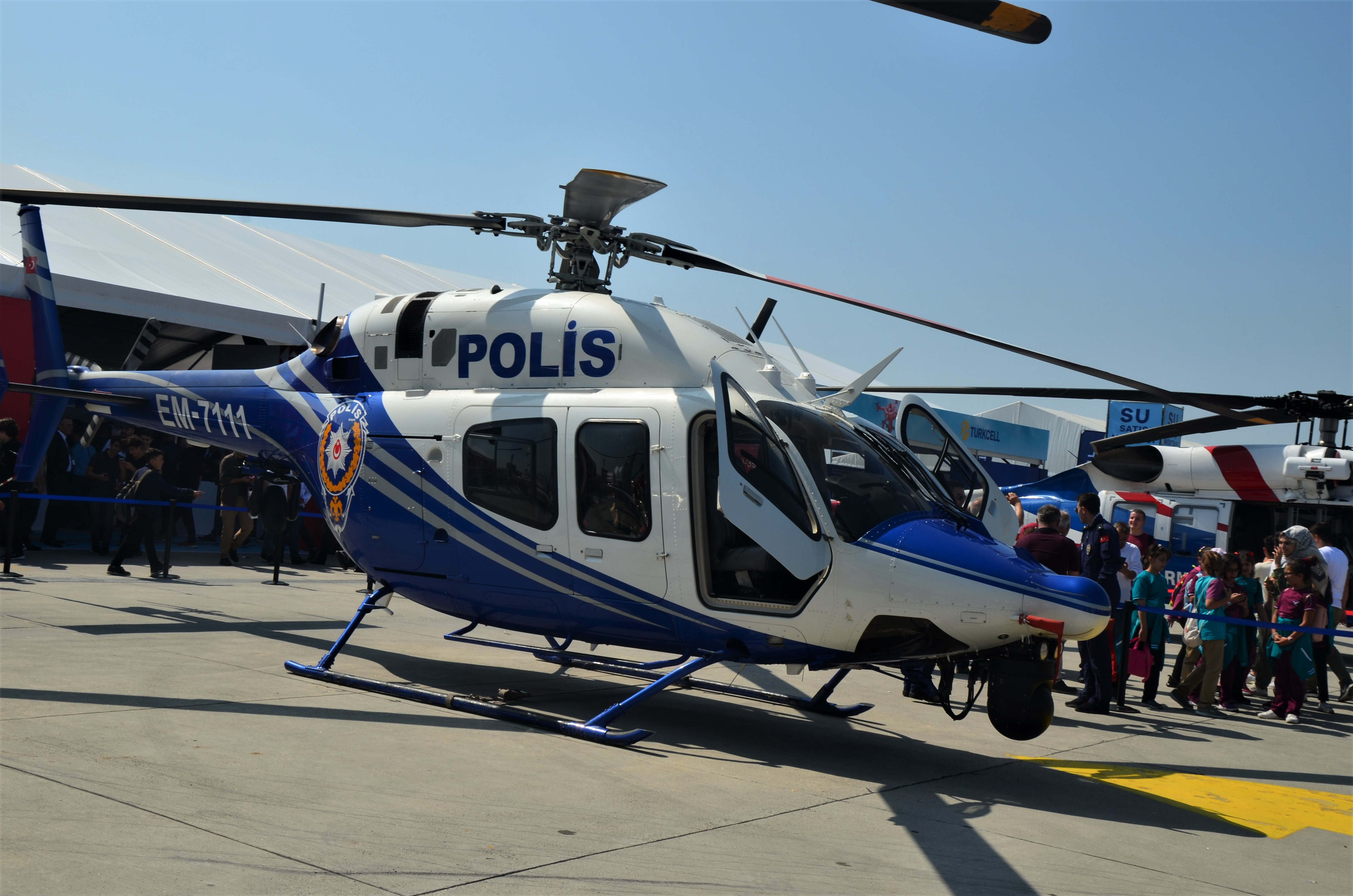 Bell 429 helicopter of Turkish Police at Teknofest 2019